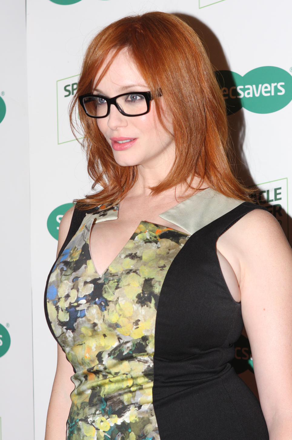 Christina Hendricks launches a Spectacle Wearer of the Year competition at The Star in Sydney, Australia, 2012.